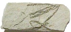 Cropped image of taxon in file name